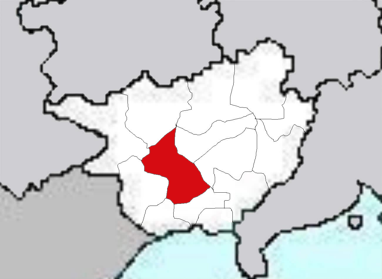 districts of Nanning